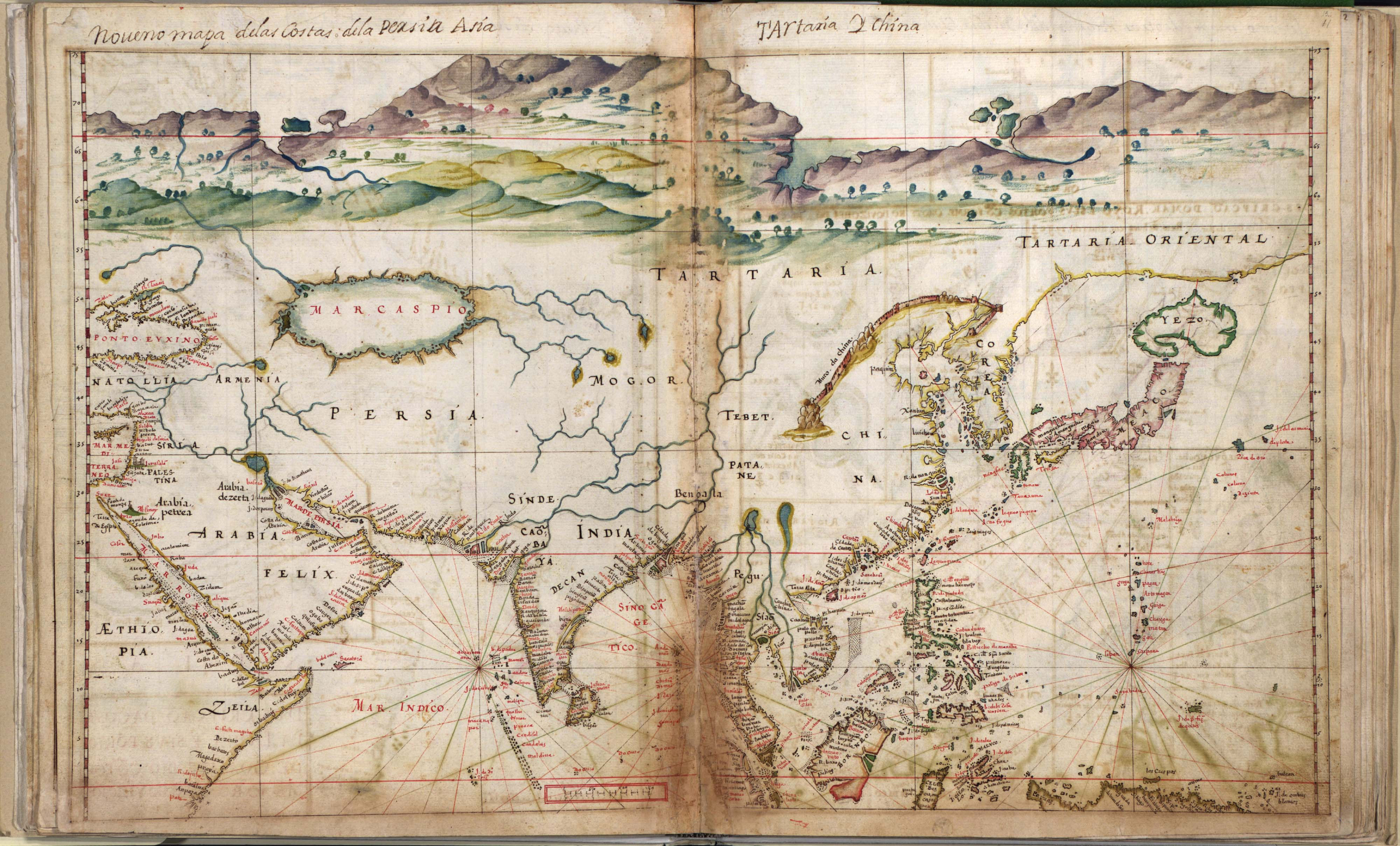 1630 Portuguese map of Asia, entitled Taboas geraes de toda a navegação, divididas e emendadas por Dom Ieronimo de Attayde com todos os portos principaes das conquistas de Portugal delineadas por Ioão Teixeira cosmographo de Sua Magestade, anno de 1630 (General tables of all the navigation, divided and corrected by D. Jeronimo de Ataide, with all the ports and conquests of Portugal delineated by Joao Teixeira, cosmographer of His Majesty, Year 1630""